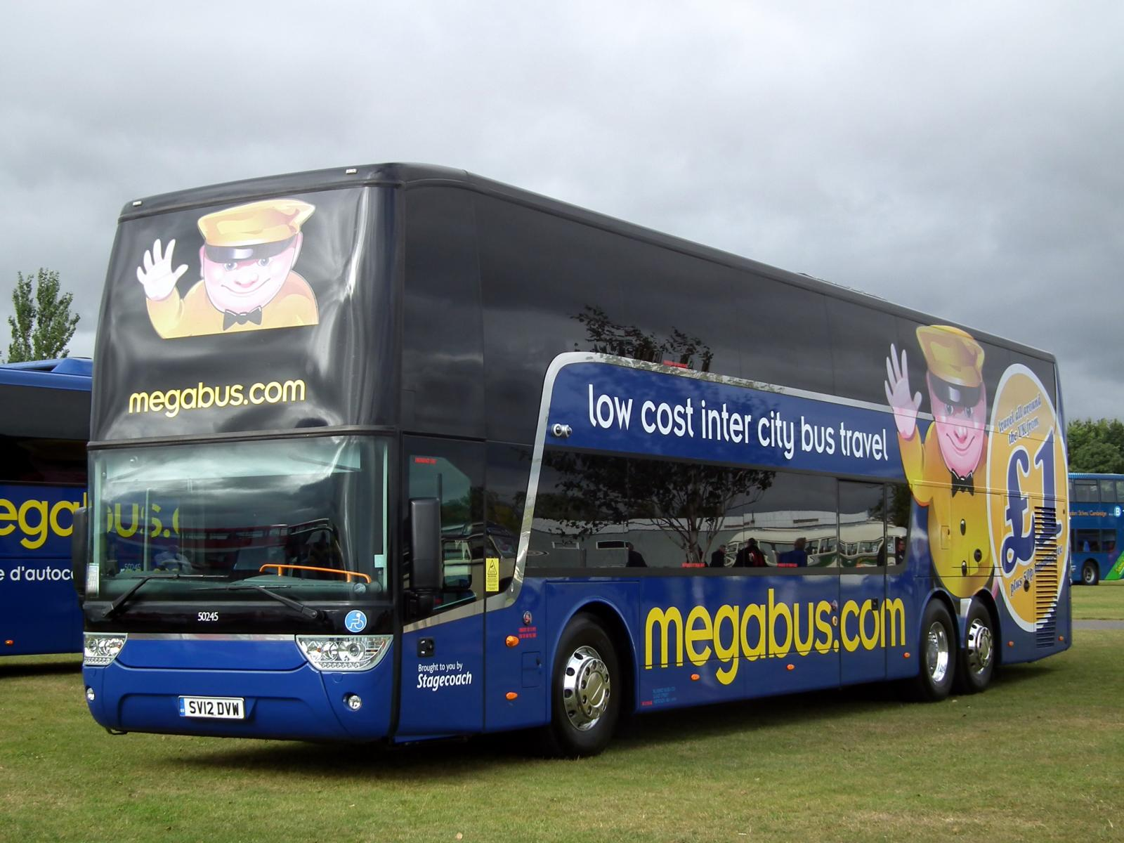 Megabus 50245 (SV12 DVW), a Van Hool Astromega, seen at Showbus 2012.